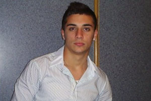 Picture of Leighton Grech.